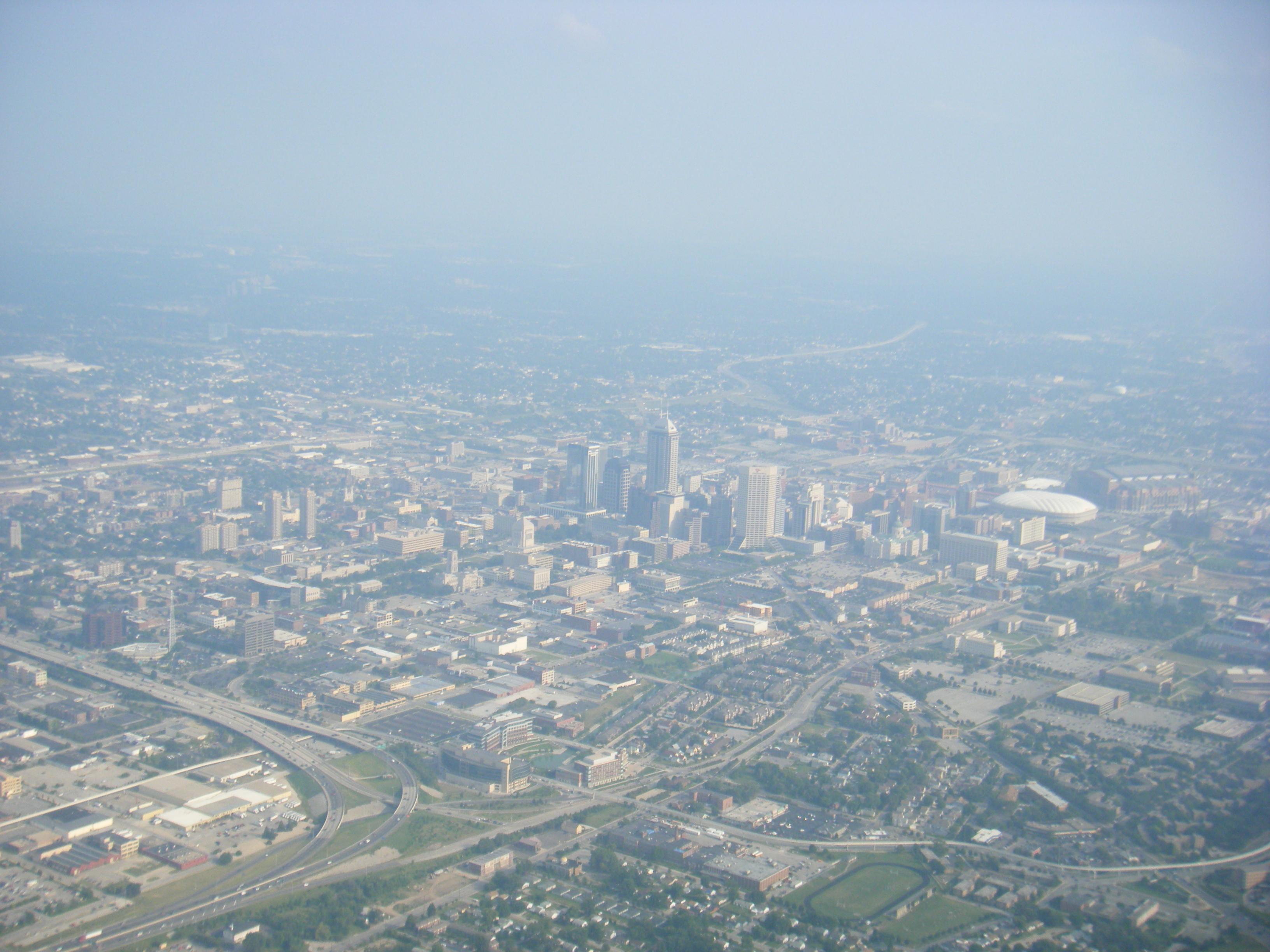 picture of downtown indianapolis 7/21/08 from aprox 2000', looking southeast. from left to right, you can see i65 north/south, all of the downtown buildings, and to the right the RCA dome with lucas oil stadium behind. to the left and out of the pic is the i70/i65 split, with i65 southbound in the background.